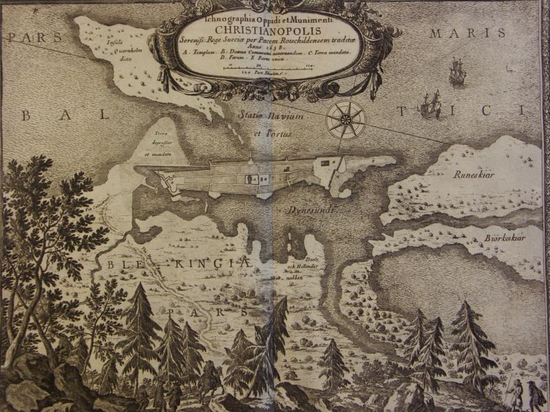 Copper engraved map of Christianopolis (Kristianopel) — Blekinge province, southeastern Sweden. "Ichnographia Oppidi et Munimenti Christianopolis..."; publisher: Samuel von Pufendorf; painter: Count Erik Jönsson Dahlberg; Nürnberg, bei Riegel 1729 CE.